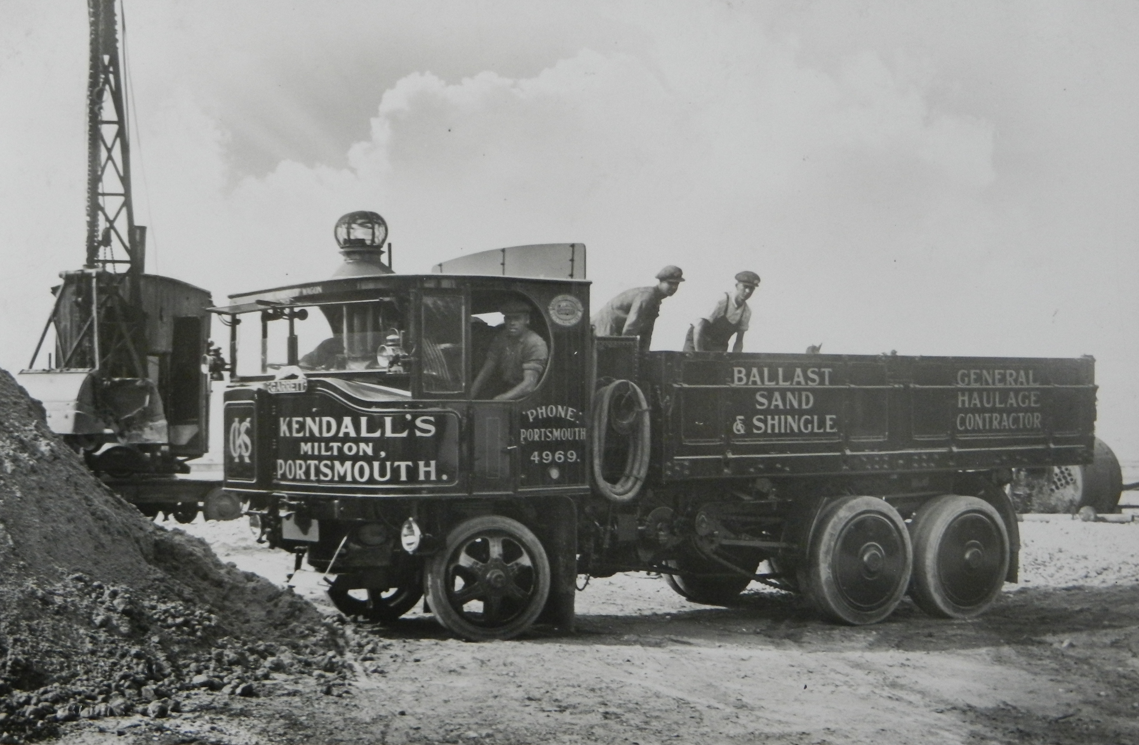 This photograph shows a Garrett Six Wheeled tipping wagon, works number 35464, with a steam crane loading gravel. Photograph taken in Portsmouth. Note the unusual asymmetric cab, which allowed the driver to sit further forwards and get a better view of the road. This wagon survives in preservation.